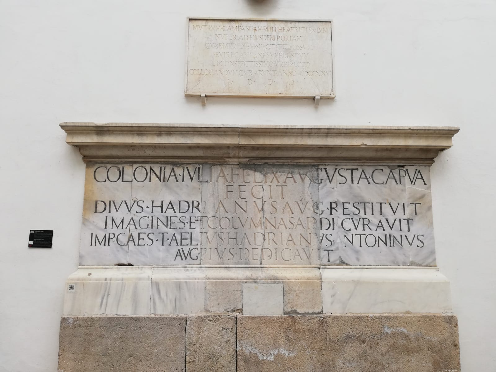 Colonia Julia epigraph integrated by Alessio Mazzocchi, Museo Campano, Capua, Italy